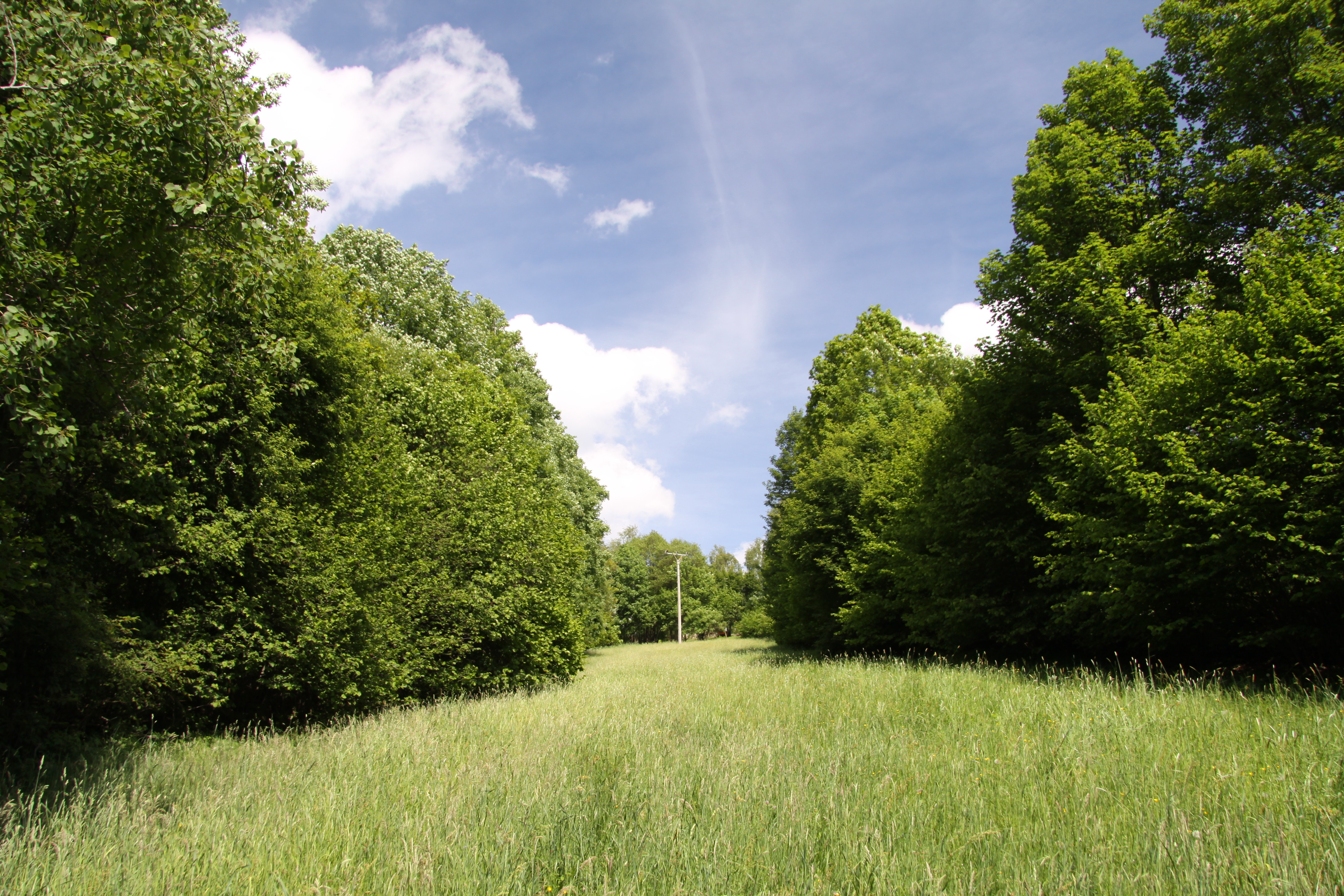 Nature reserve Kralovické louky near Kralovice, Prachatice District, Czech Republic - Google Maps - Google Earth